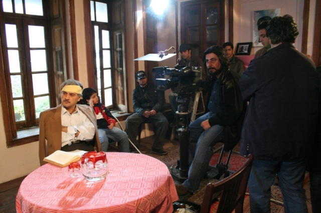 Behind the Scenes series, empty frames Photo: hoseinshams